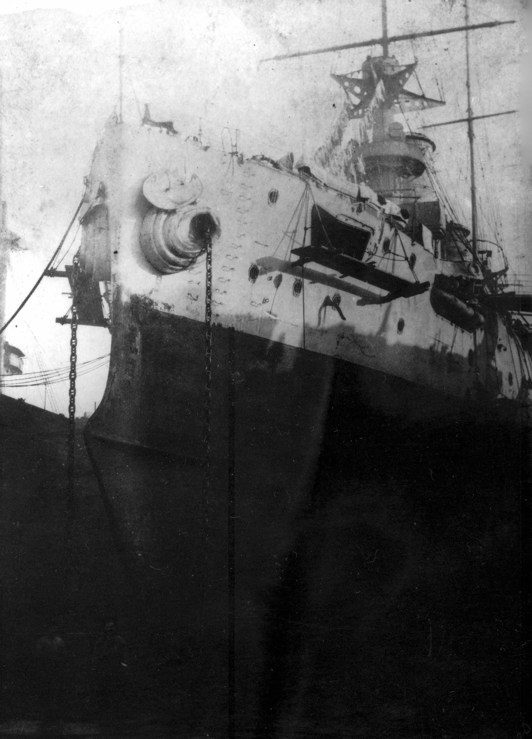 The Imperial Russian battleship Chesma on the dock of Cammell Laird in Birkenhead, November 1916.